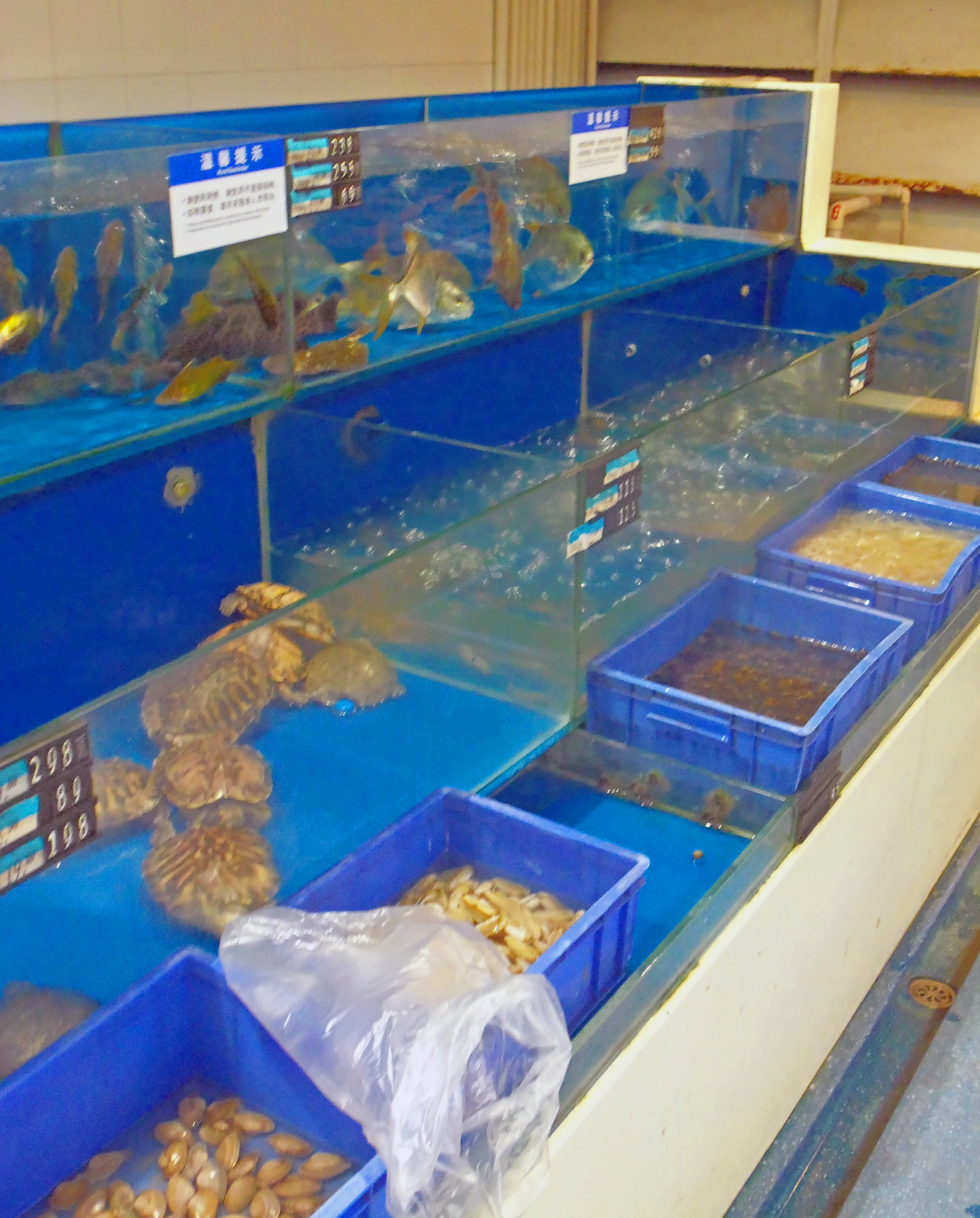 Fish tanks and turtle pen in wet market at Luohu District Wal-Mart Supercenter.